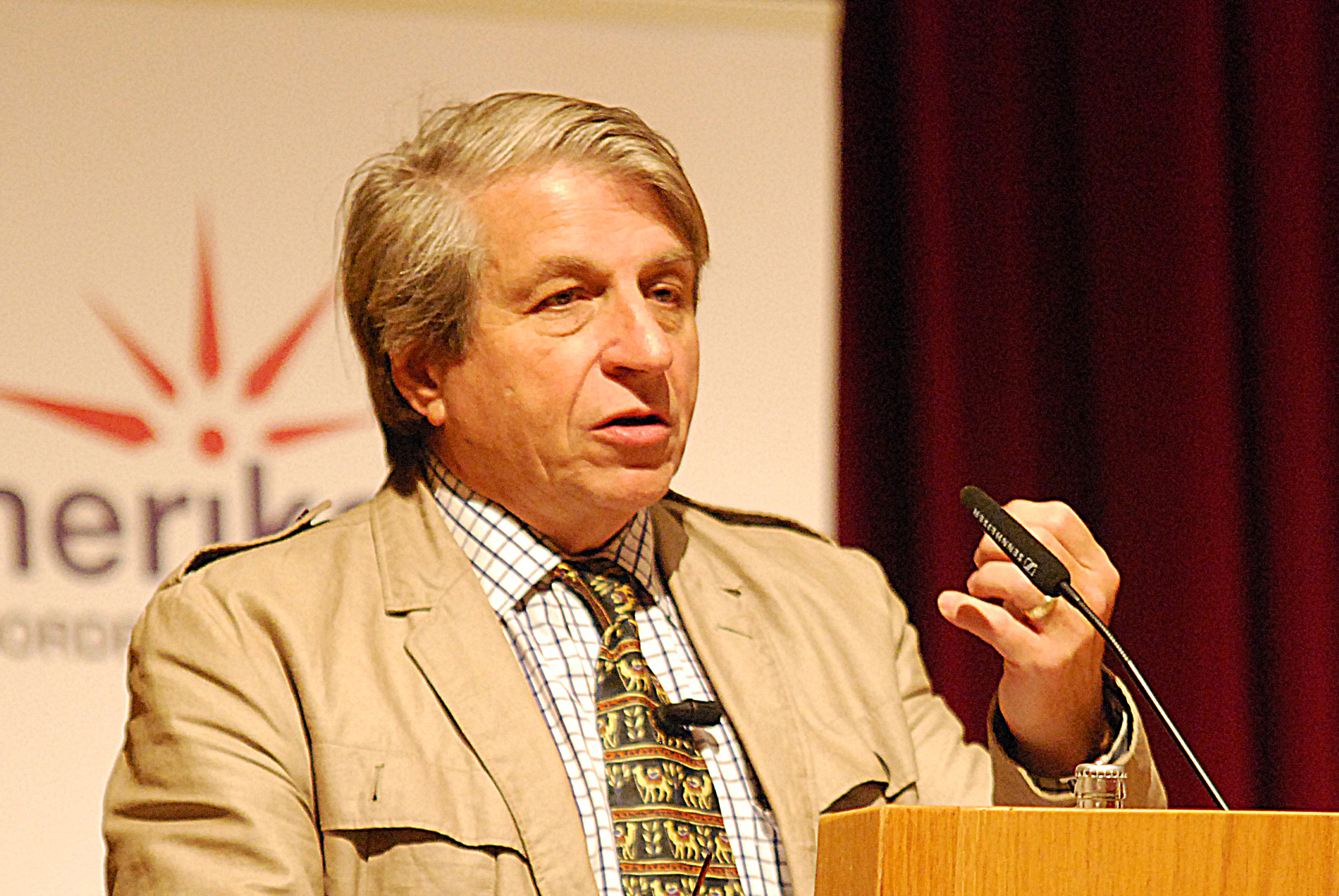 Benjamin R. Barber during a Talk in Bonn.